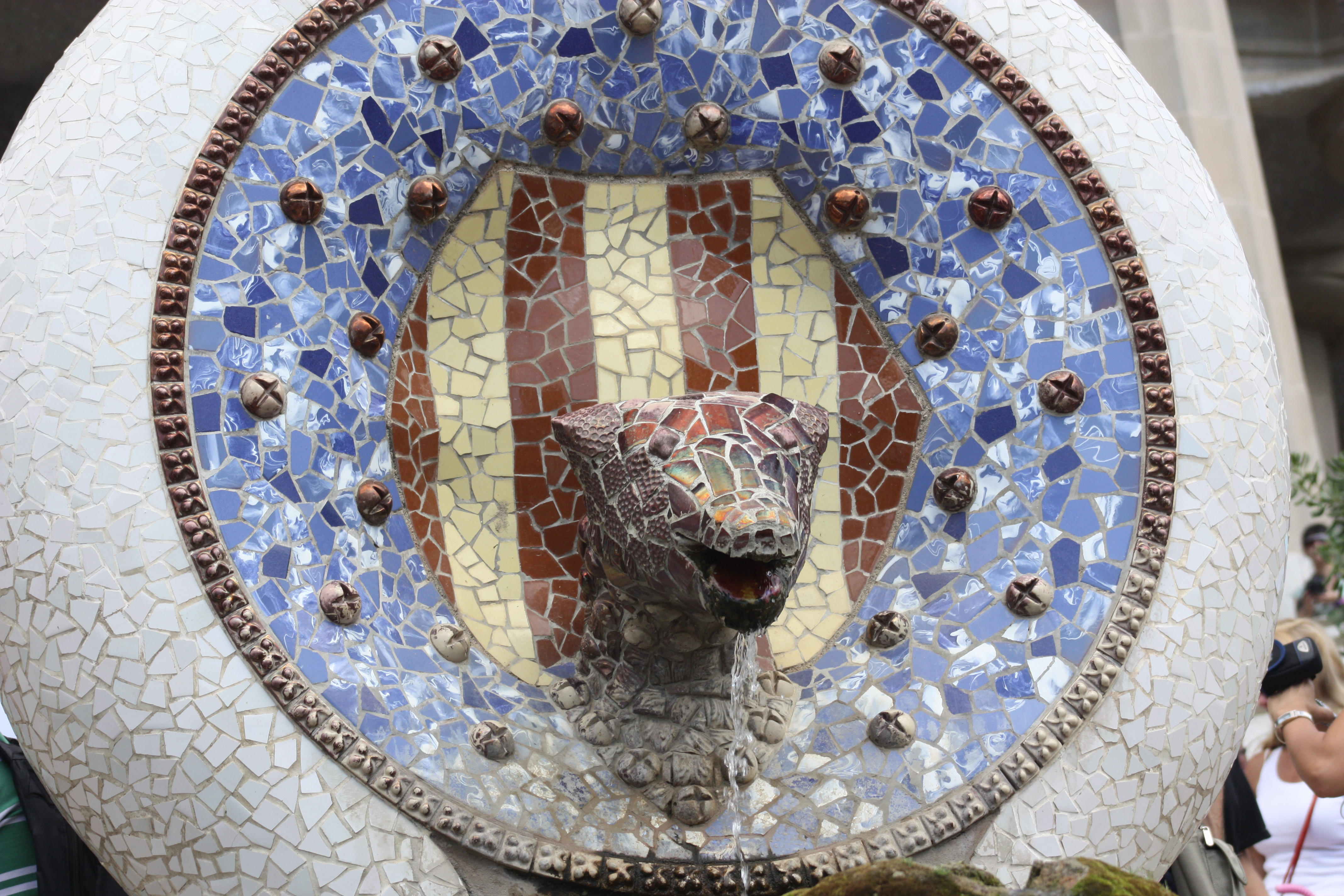 Parc Güell, Barcelona, July 2009